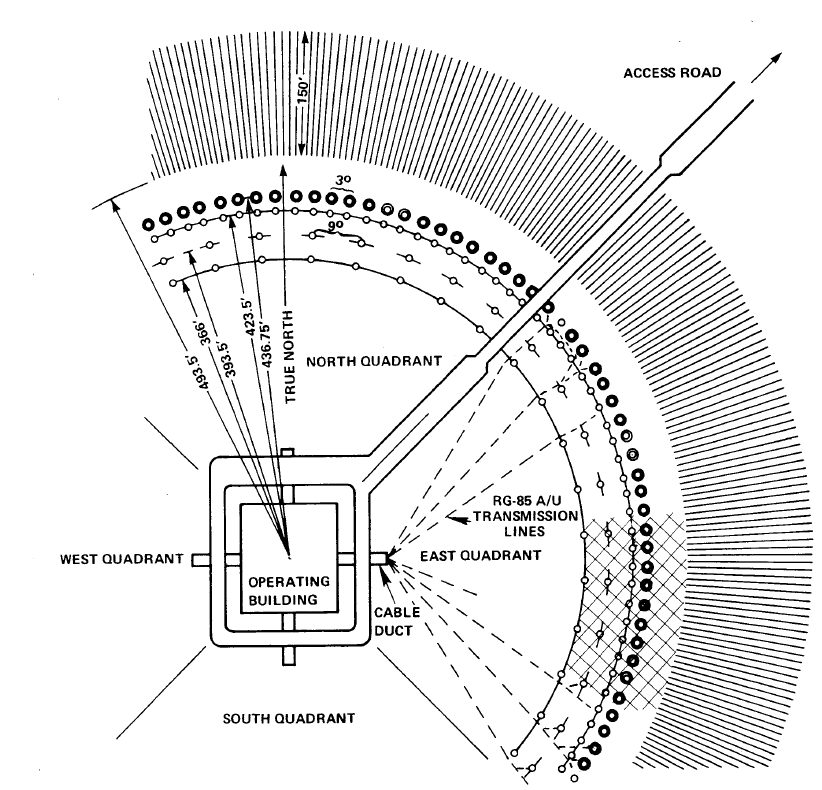 AN/FRD-10 - Figure 2-2 Plan-View of CDAA.